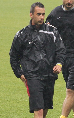 Ľubomír Guldan